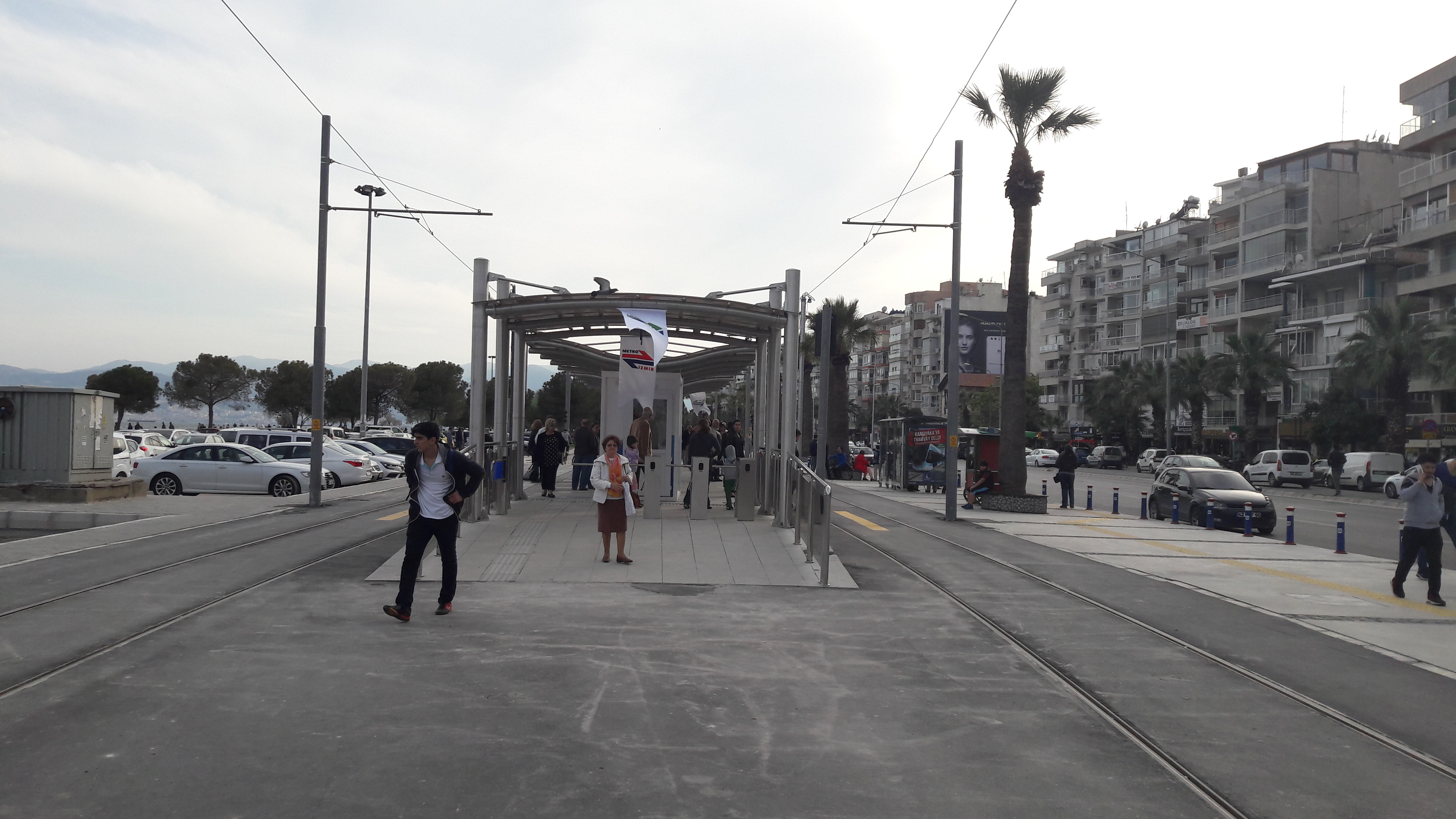 Karsiyaka Iskele tram station.